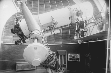 1 meter Zeiss telescope at Merate Astronomical Observatory, Merate (LC), Italy, with photocamera at Newton focus.